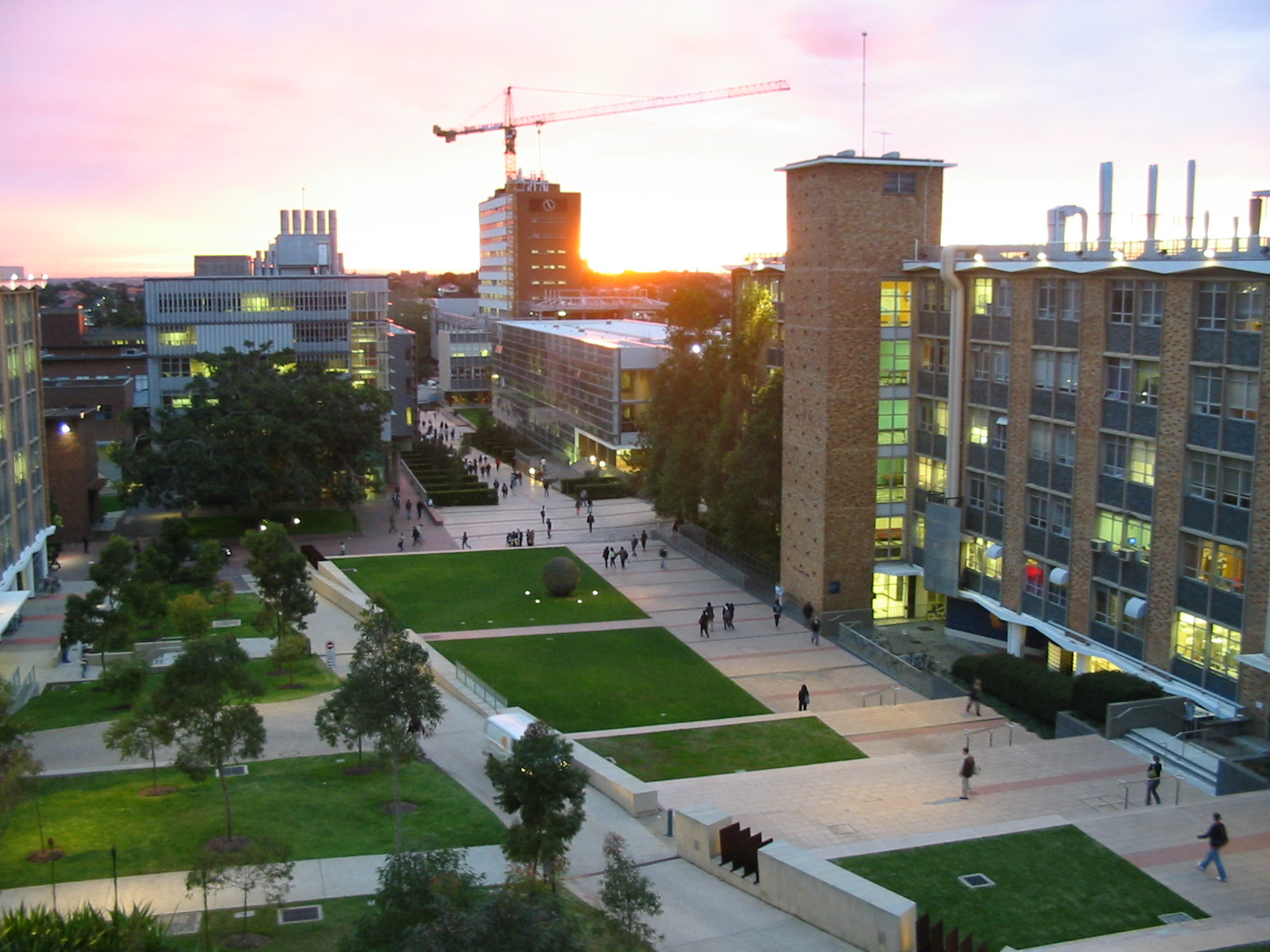 lower campus in the sunset